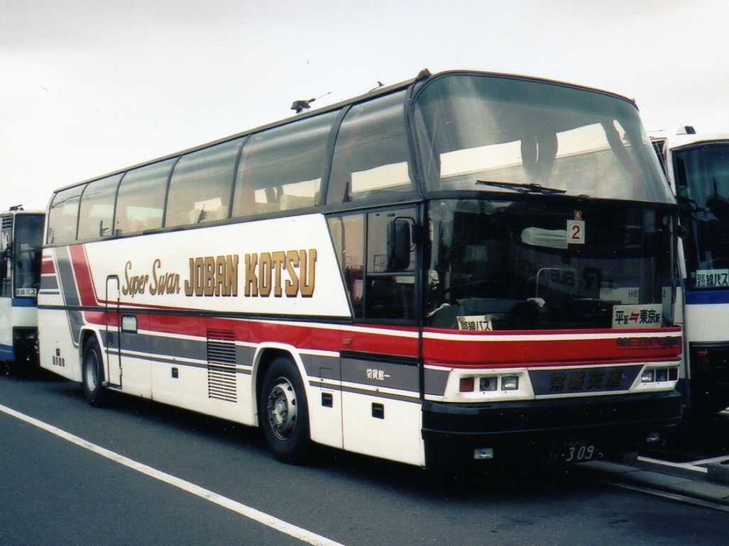 Joban Kotsu Bus（常磐交通自動車） NEOPLAN Cityliner N116/2, Japan-Version ネオプラン・シティライナーN116/2 日本仕様車 常磐交通自動車「Super Swan」 ジェイアールバス関東東京支店にて許可を得て撮影 Photo by Cassiopeia_sweet. This picture is obtaining and photoing permission of the persons concerned.